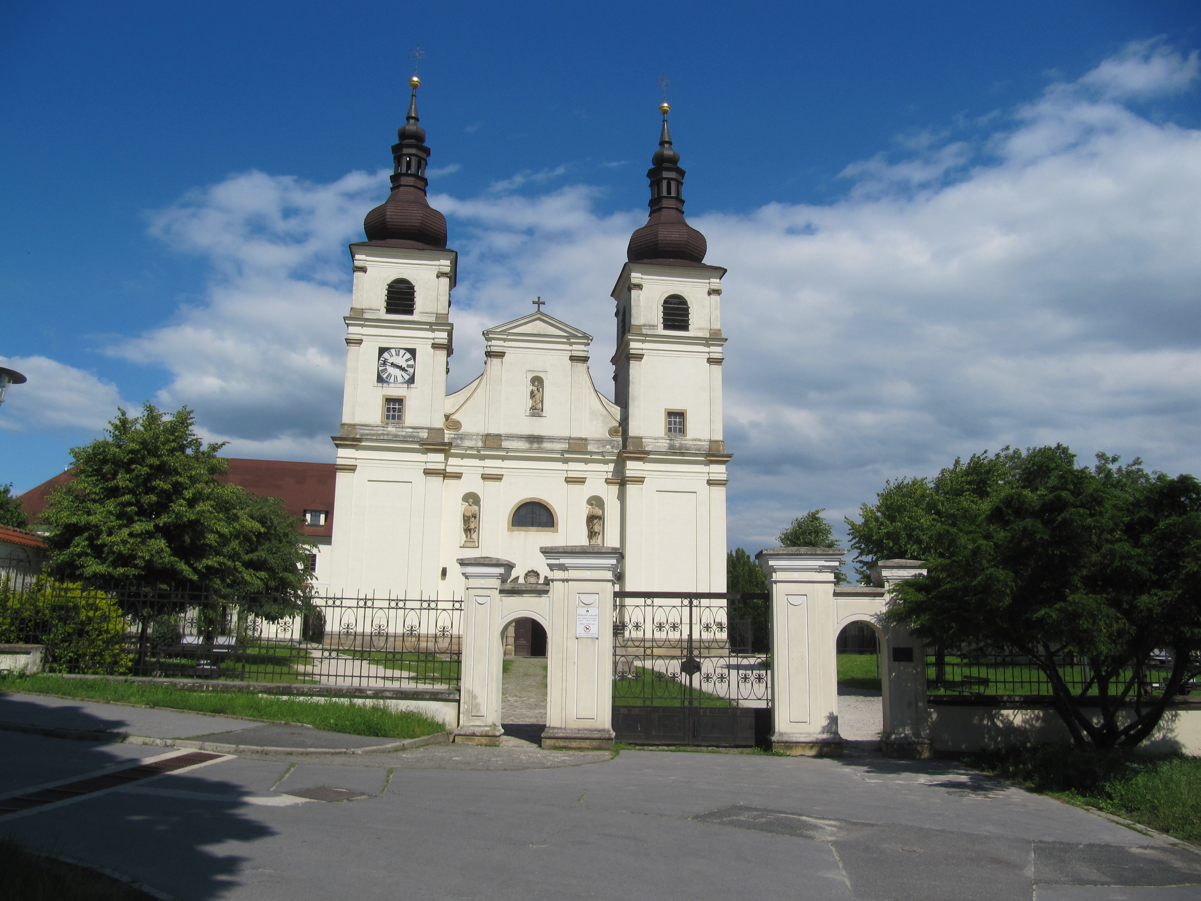 Dominican monastery in Uherský Brod, Czech Republic